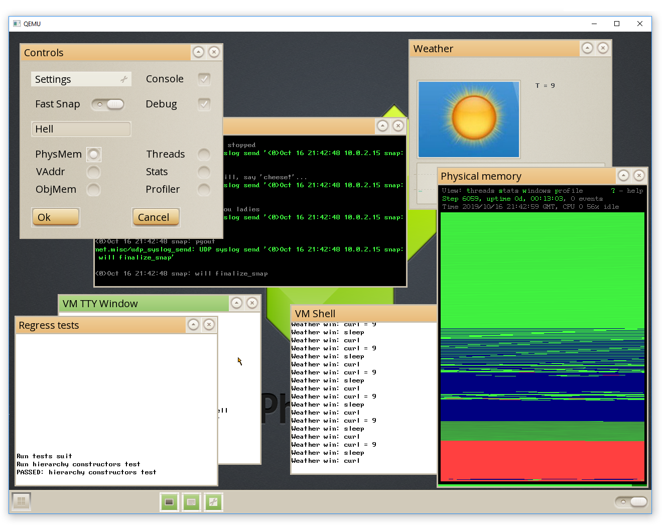 Phantom operating system screen - one of the test runs 17 Oct 2018